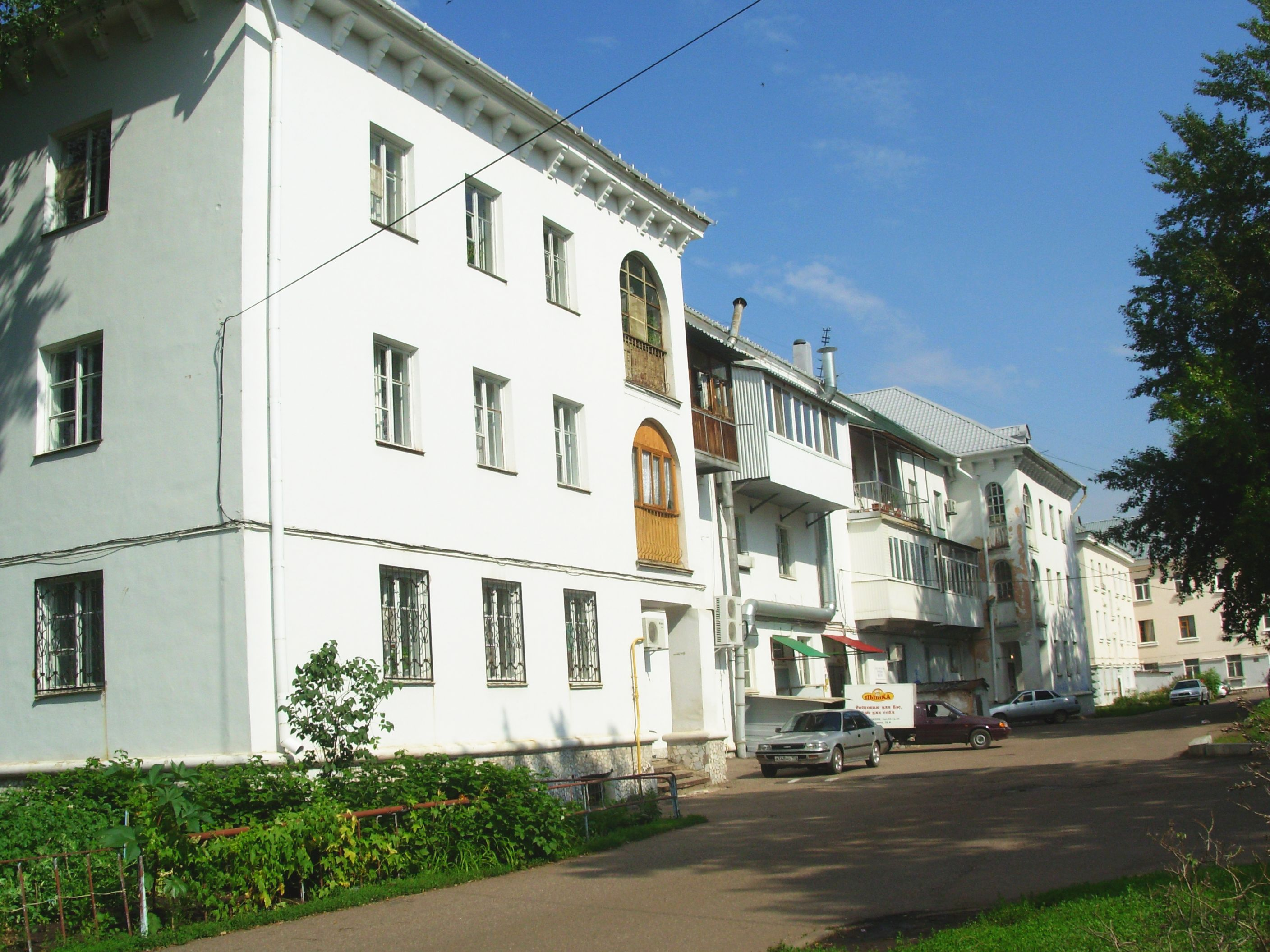 street